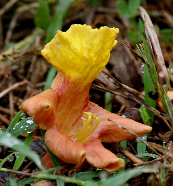 Gamhar or Kashmir Teak Gmelina arborea at 23 Mile near Jayanti in Buxa Tiger Reserve in Jalpaiguri district of West Bengal, India.